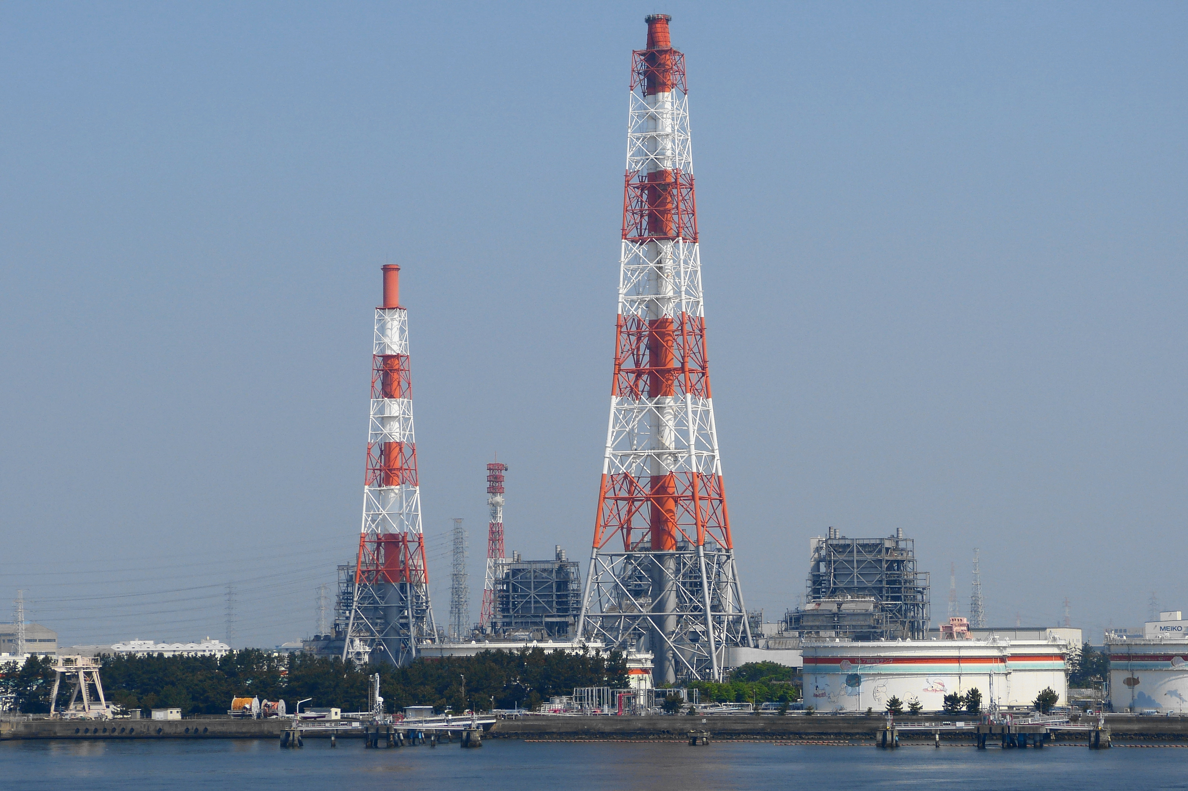 West-Nagoya Thermal Power Station ,Aichi prefecture, Japan